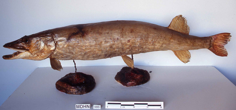 Northern pike in Museum Darder of Banyoles, in Catalonia